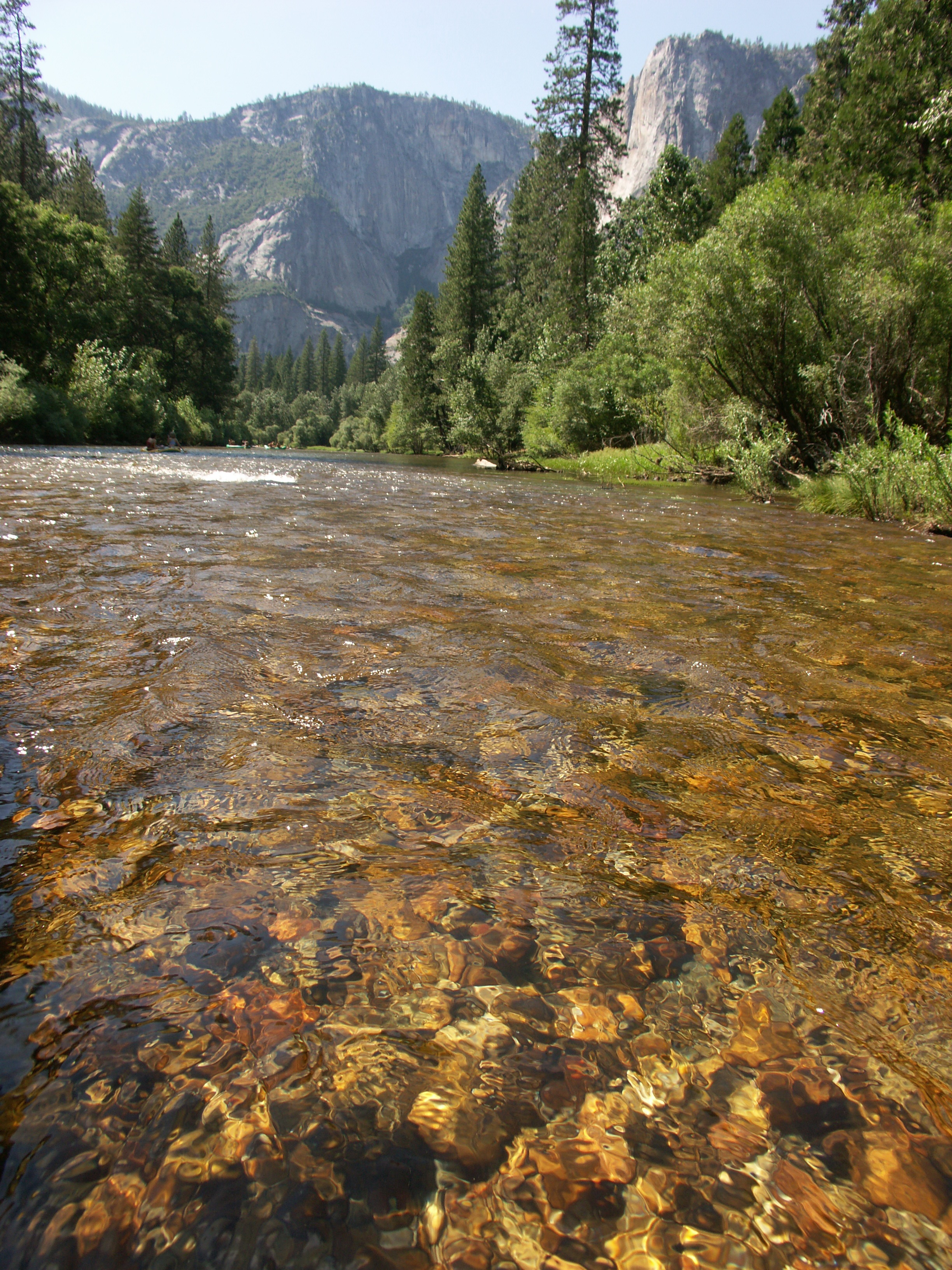 Scenery of Yosemite.